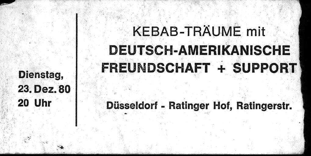 Ticket for a concert of Deutsch-Amerikanische Freundschaft in the Ratinger Hof, a punk location in Düsseldorf, Germany